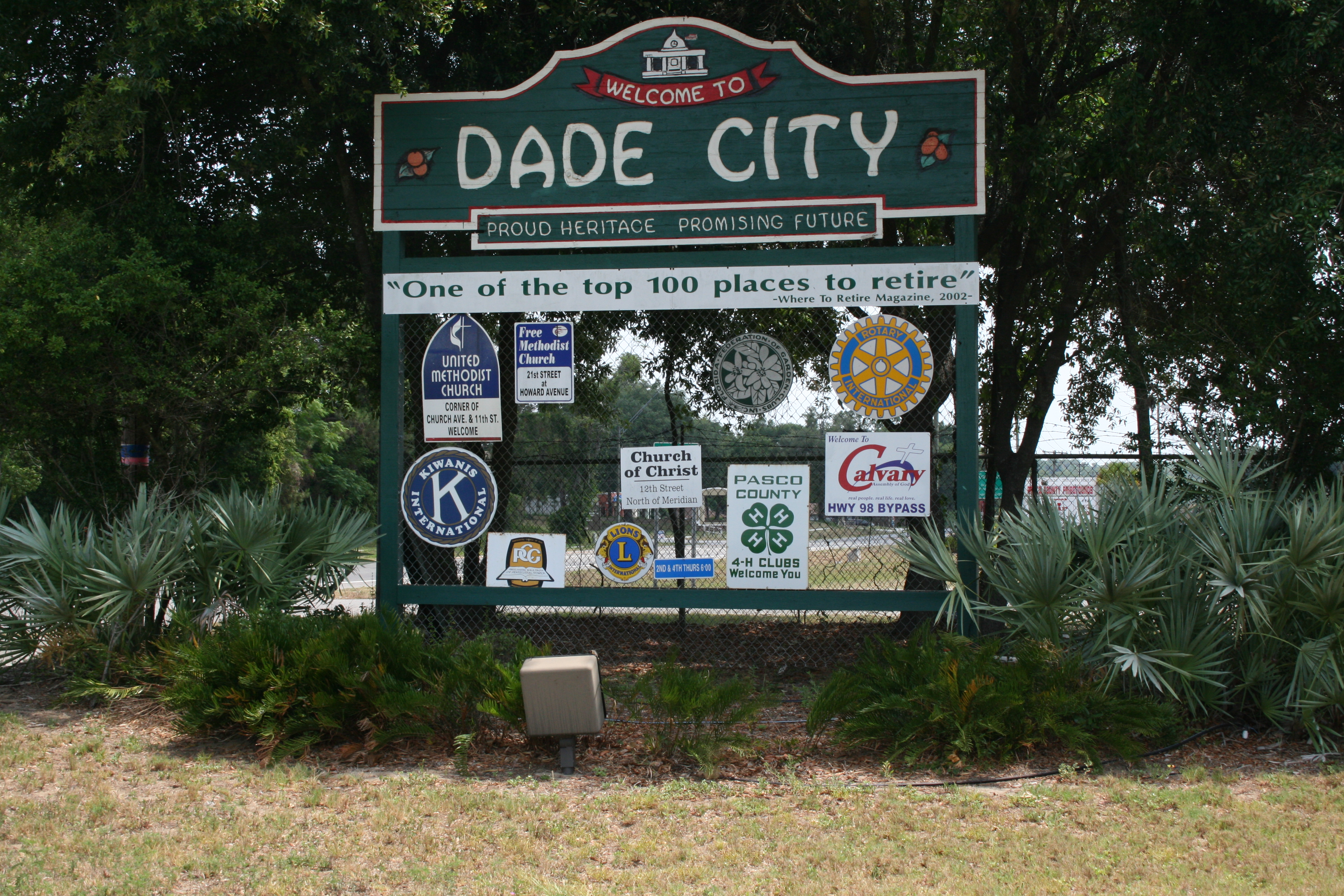 Sign on the west side of S.R. 52 next to the Pasco County Fairgrounds welcoming visitors to Dade City.